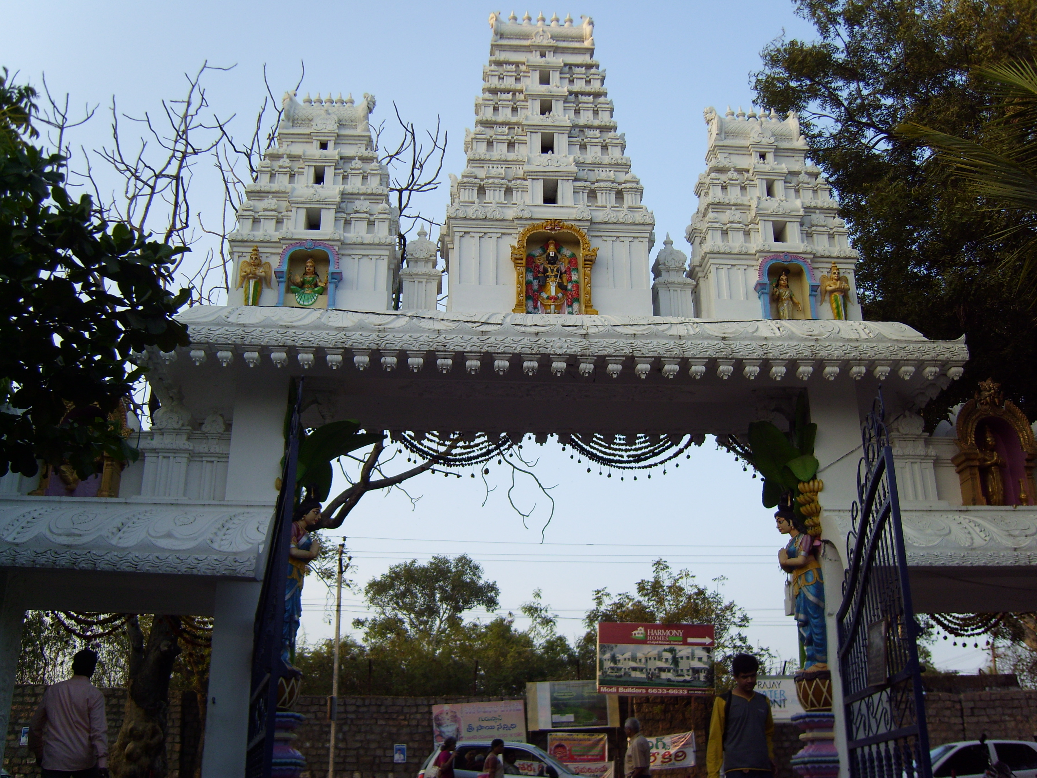 Ratnalayam VenkateswaraTemple